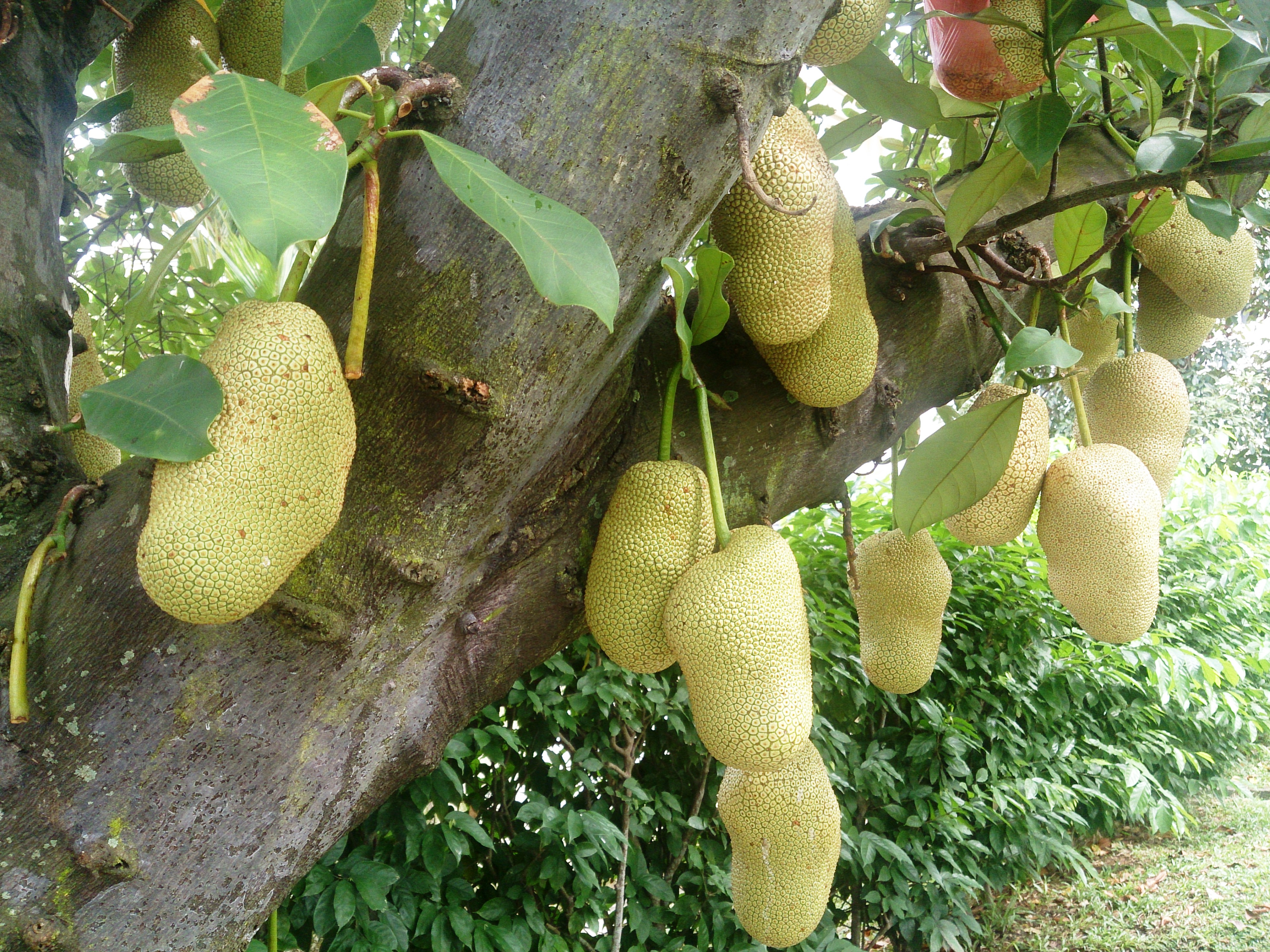 Nice jackfruits found at the Japanese Cemetery Park (Chuan Hoe Avenue, Singapore)